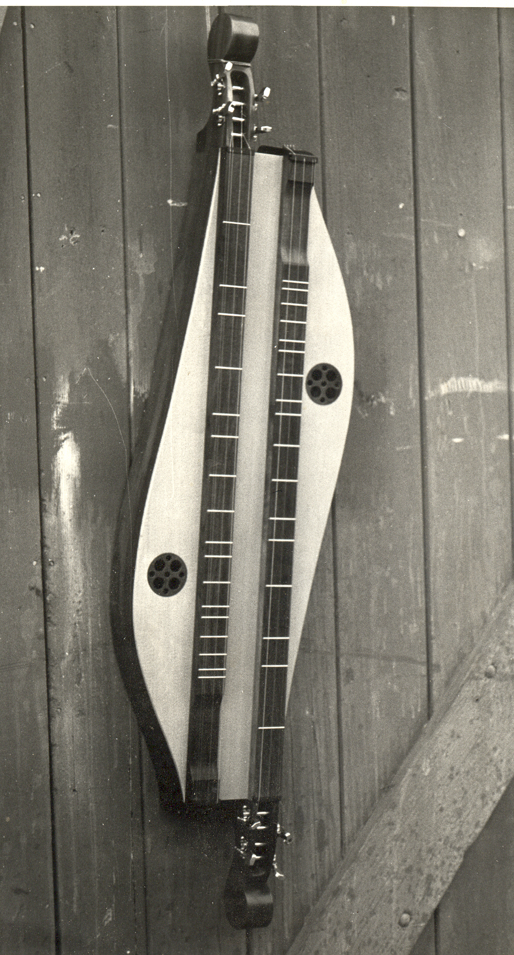 This is a courting or double dulcimer for 2 people to play at the same time sitting across from each other.